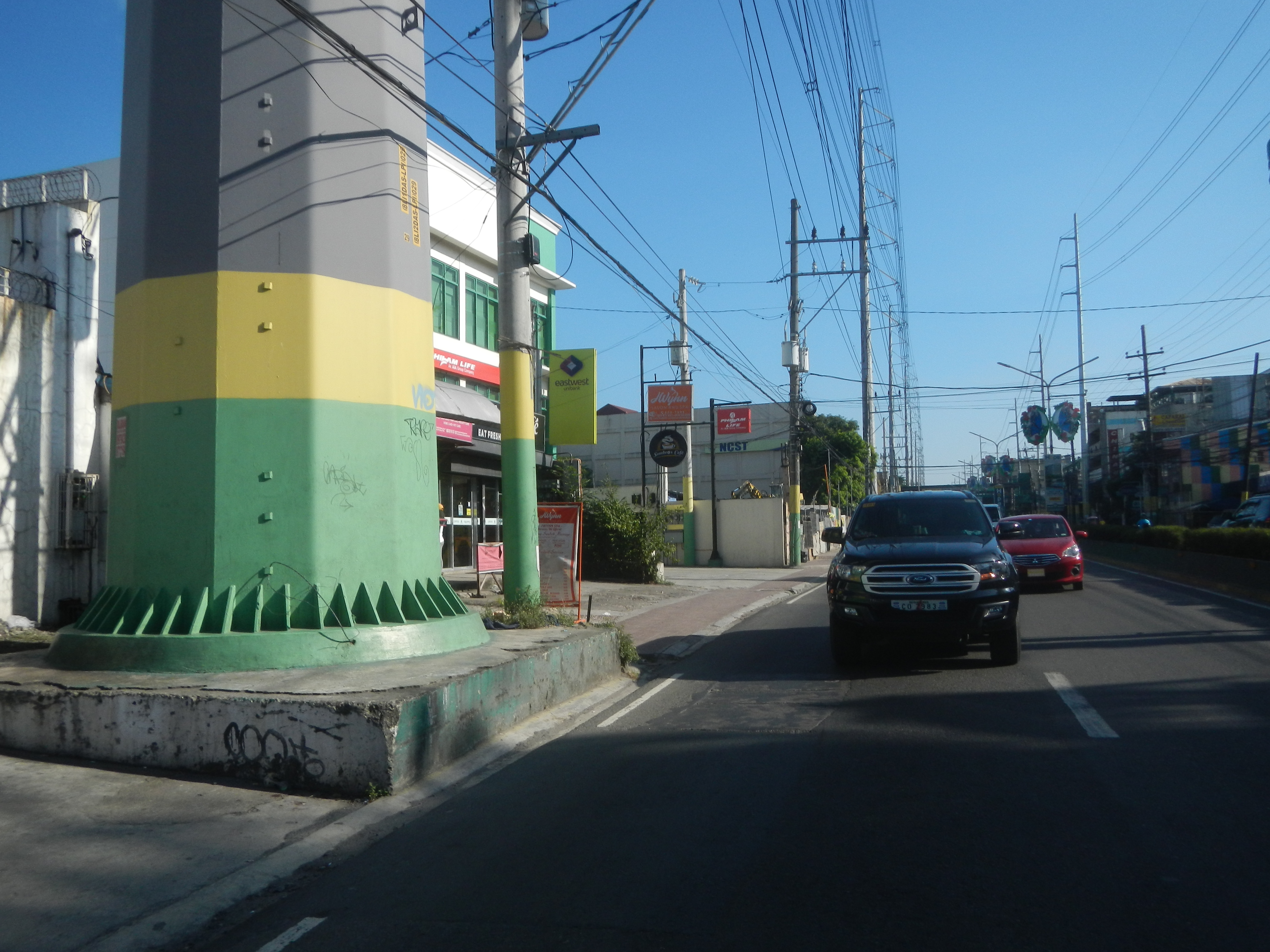 Dasmariñas City Elementary School CM Plaza (Poblacion, Dasmariñas City) Walter Mart - Dasmariñas City Aguinaldo Highway Aguinaldo Highway (Dasmariñas City) Aguinaldo Highway (Imus City) corner Governor's Drive Barangays Burol I, Burol II, Burol III & Burol Main, DBB-E Emmanuel Bergado I & Emmanuel Bergado II, Sta. Cruz I & Sta. Cruz II DBB-J San Antonio de Padua I & San Antonio de Padua II and Sta. Maria, Dasmariñas City Dasmariñas City Dasmariñas Bagong Bayan Burol I, Burol II, Burol III & Burol Main, Dasmariñas City 14°19'41"N 120°56'54"E Zone I, Zone I-A, Zone II, Zone III & Zone IV, Poblacion, Dasmariñas City 14°19'58"N 120°56'24"E Dasmariñas City (Note: Judge Florentino Floro, the owner, to repeat, Donor Florentino Floro of all these photos hereby donate gratuitously, freely and unconditionally all these photos to and for Wikimedia Commons, exclusively, for public use of the public domain, and again without any condition whatsoever).